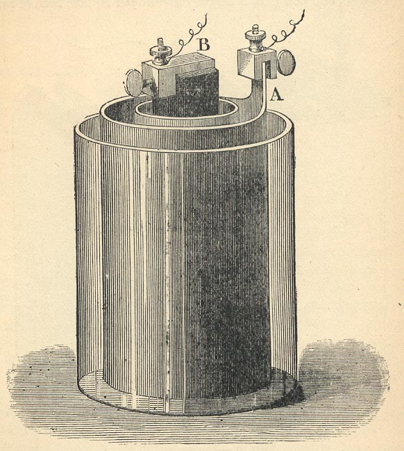 Bunsen cell, from The Electro-Plating and Electro-Refining of Metals by Arnold Philip, 1911